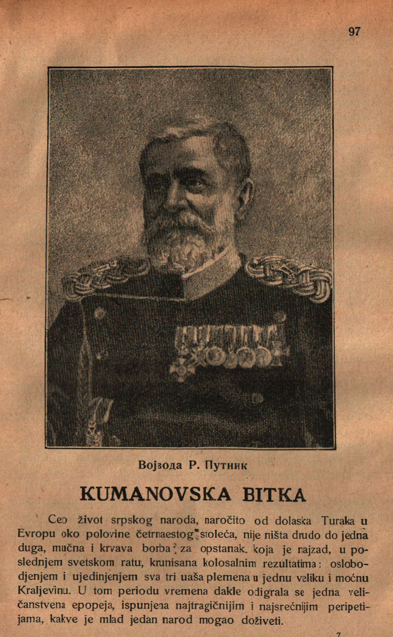 Voyvoda Vuk Popovich. 1927 calendar.